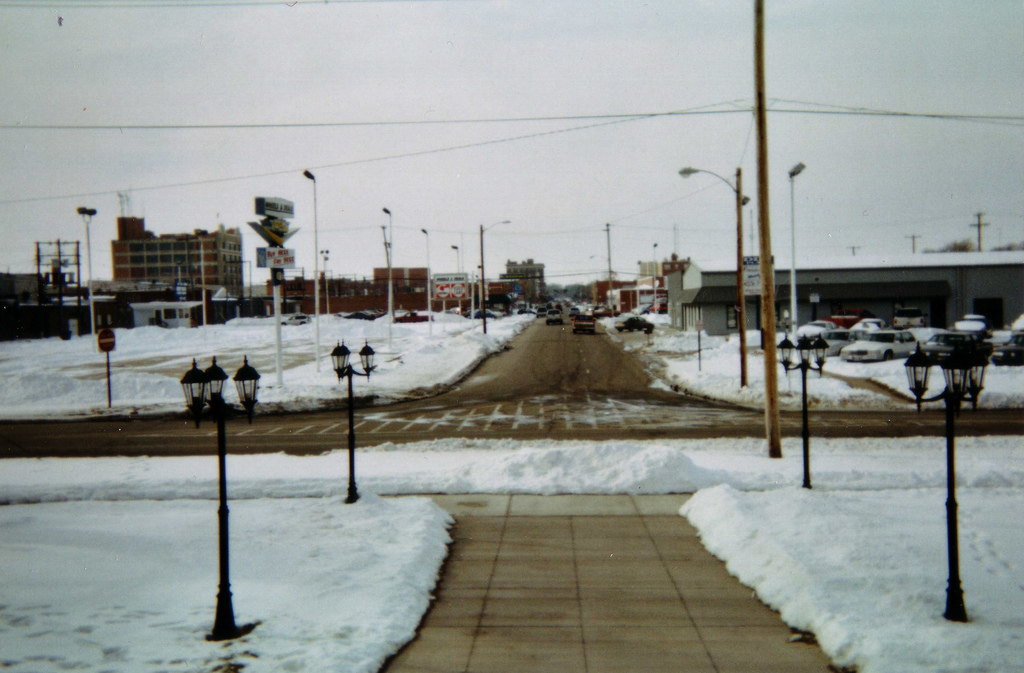 Hastings, Nebraska, USA